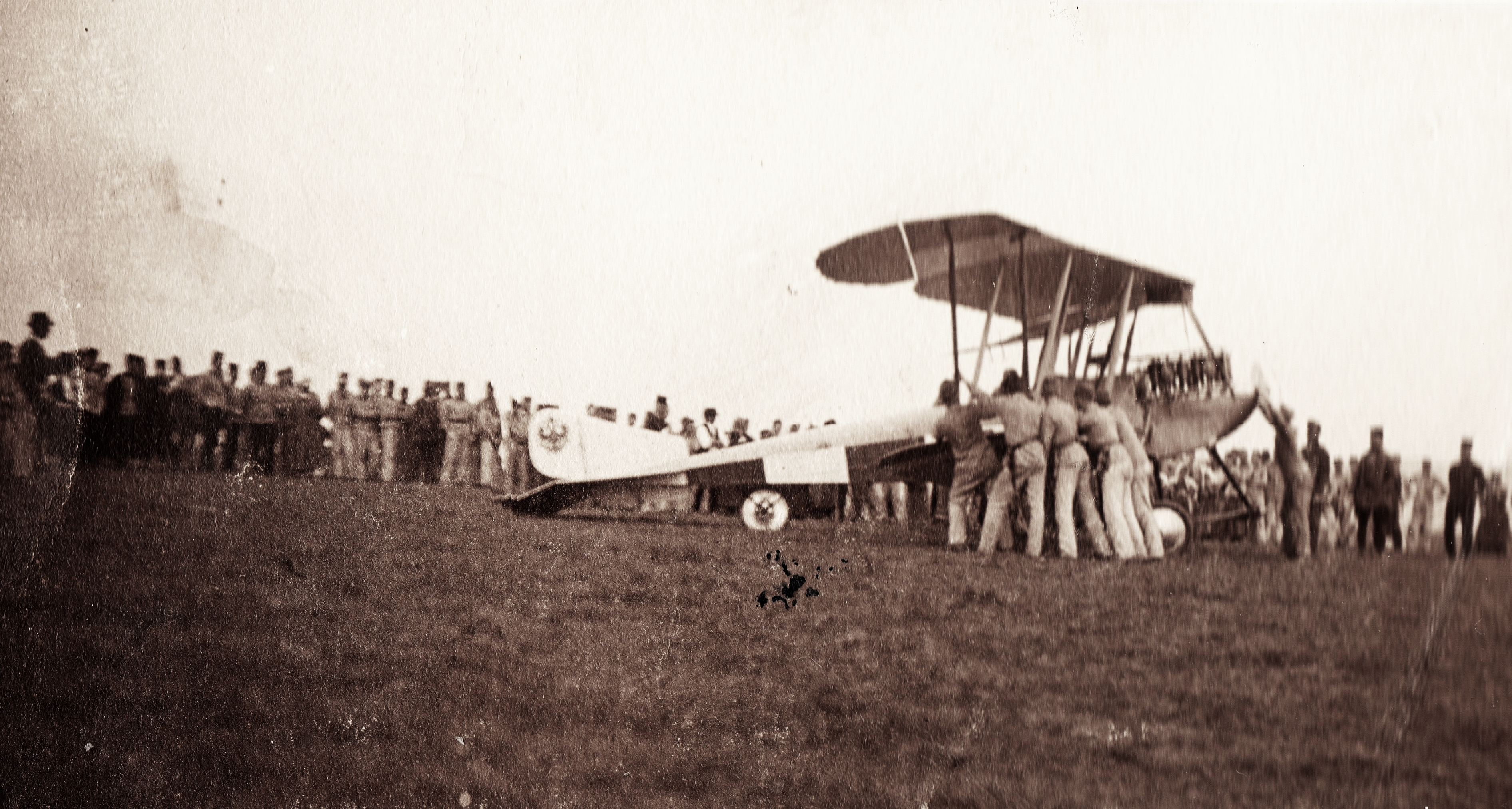 A Lohner Type B Pfeilflieger, showing the lohner "Breaking wheel" in place of a tail-skid Location: Austria, Eisenstadt Tags: airplane, airport, biplane Title: a Császári és Királyi Katonai Főreáliskola (ma Martin Kaszárnya) hallgatói gyakorlaton.